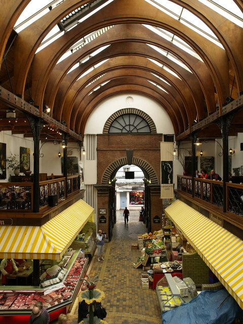 Princes Street Indoor Market